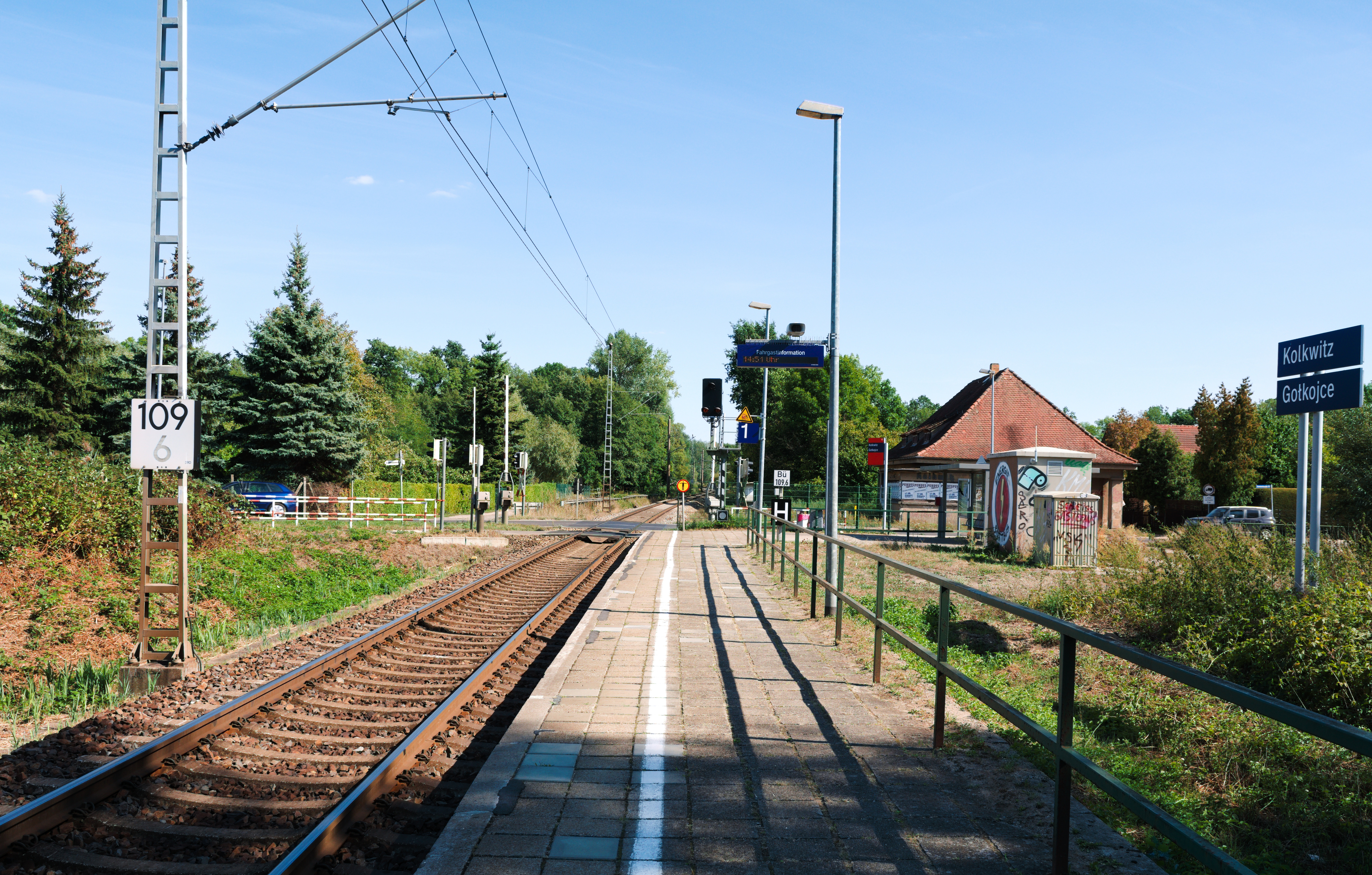 Train station "Kolkwitz" on the Berlin-Görlitz railway line. Stopping trains from Cottbus to Berlin and vice versa call here. Another main line (Halle-Cottbus) passes through Kolkwitz, so there's a separate station ("Kolkwitz-Süd") only a short distance away.